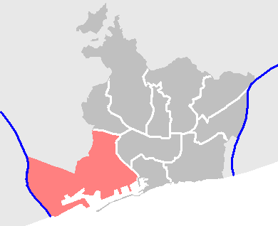 Locator maps of districts/ neighbourhoods in Barcelona: Map - Barcelona - Sants-Montjuic.PNG